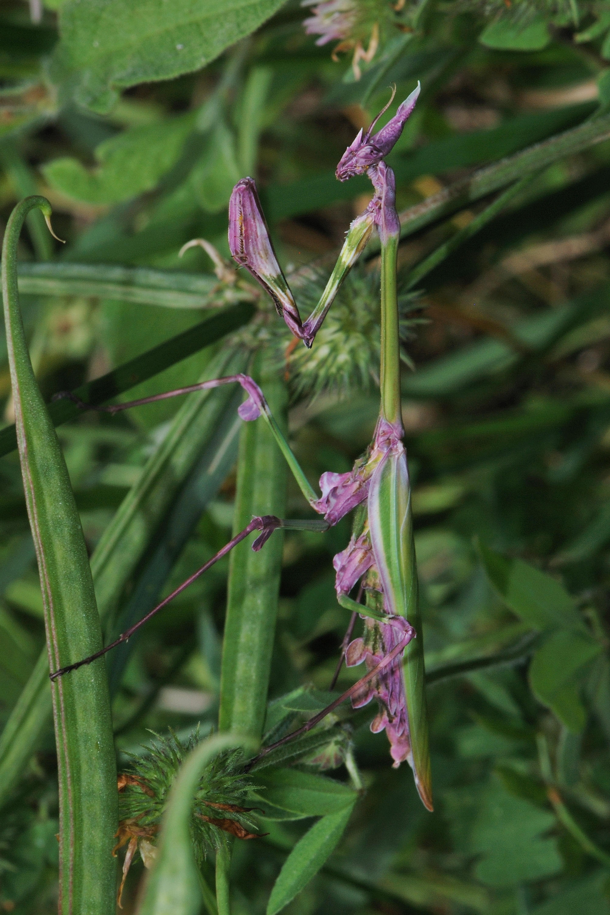 Empusa fasciata, female, Mount Carmel, Israel, May 3, 2011.